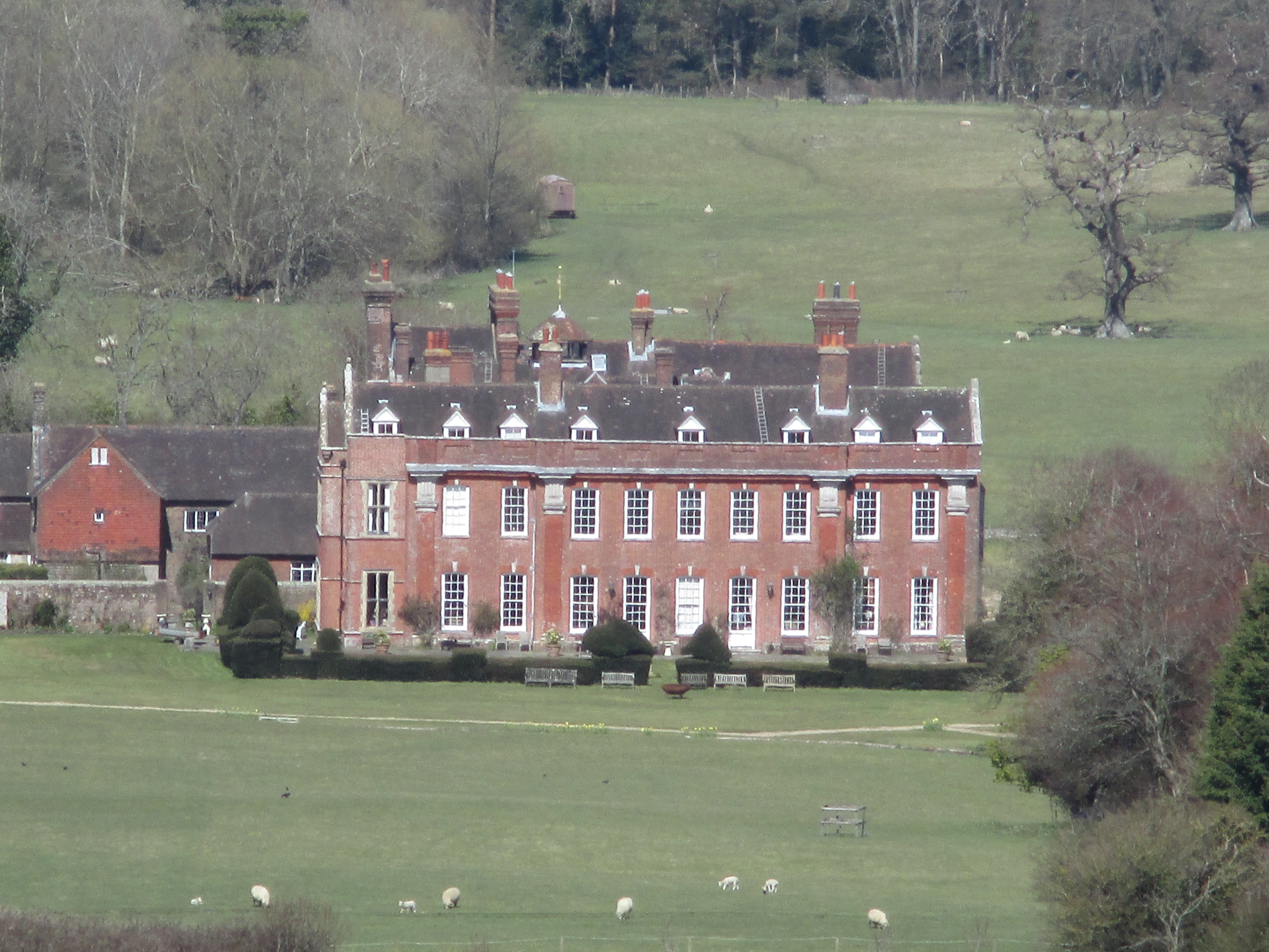 Danny House, one mile south of Hurstpierpoint, West Sussex. Seen from a point half a mile to the south on the northern slopes of Wolstonbury Hill.